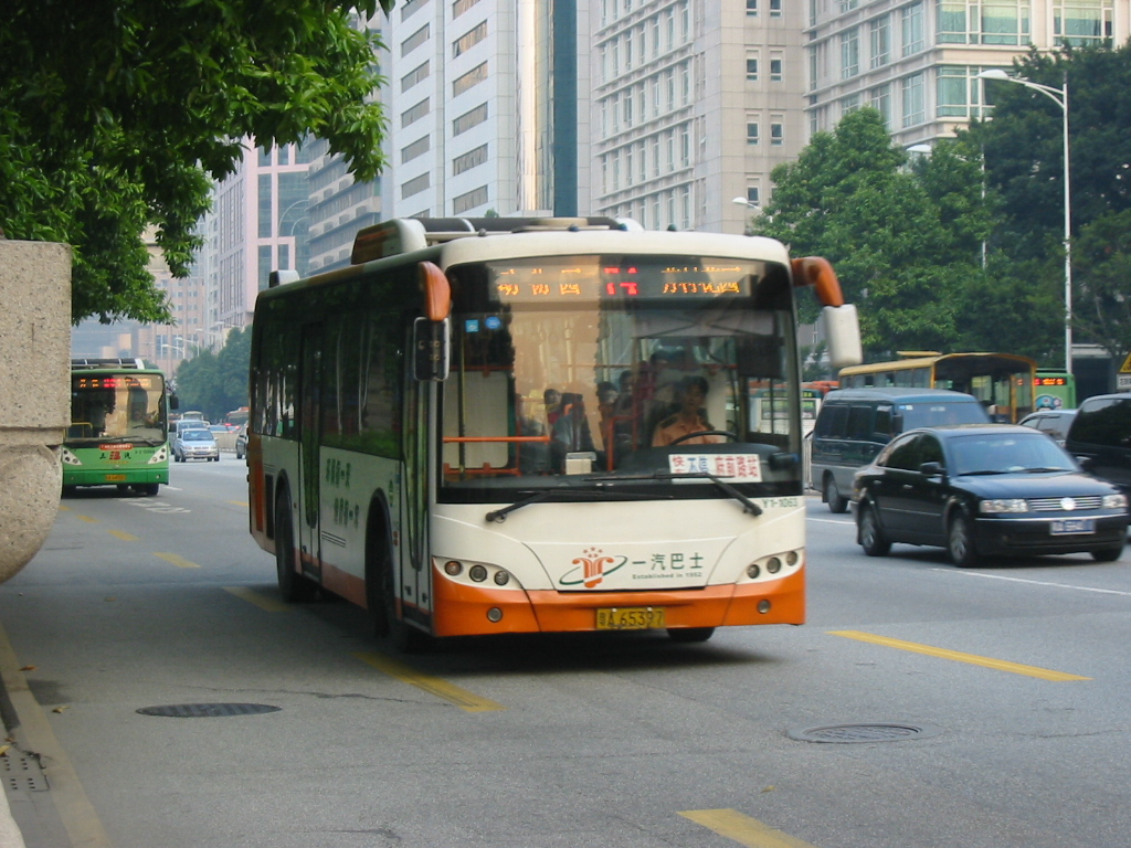 A Guangzhou Yiqi Bus running route 74.